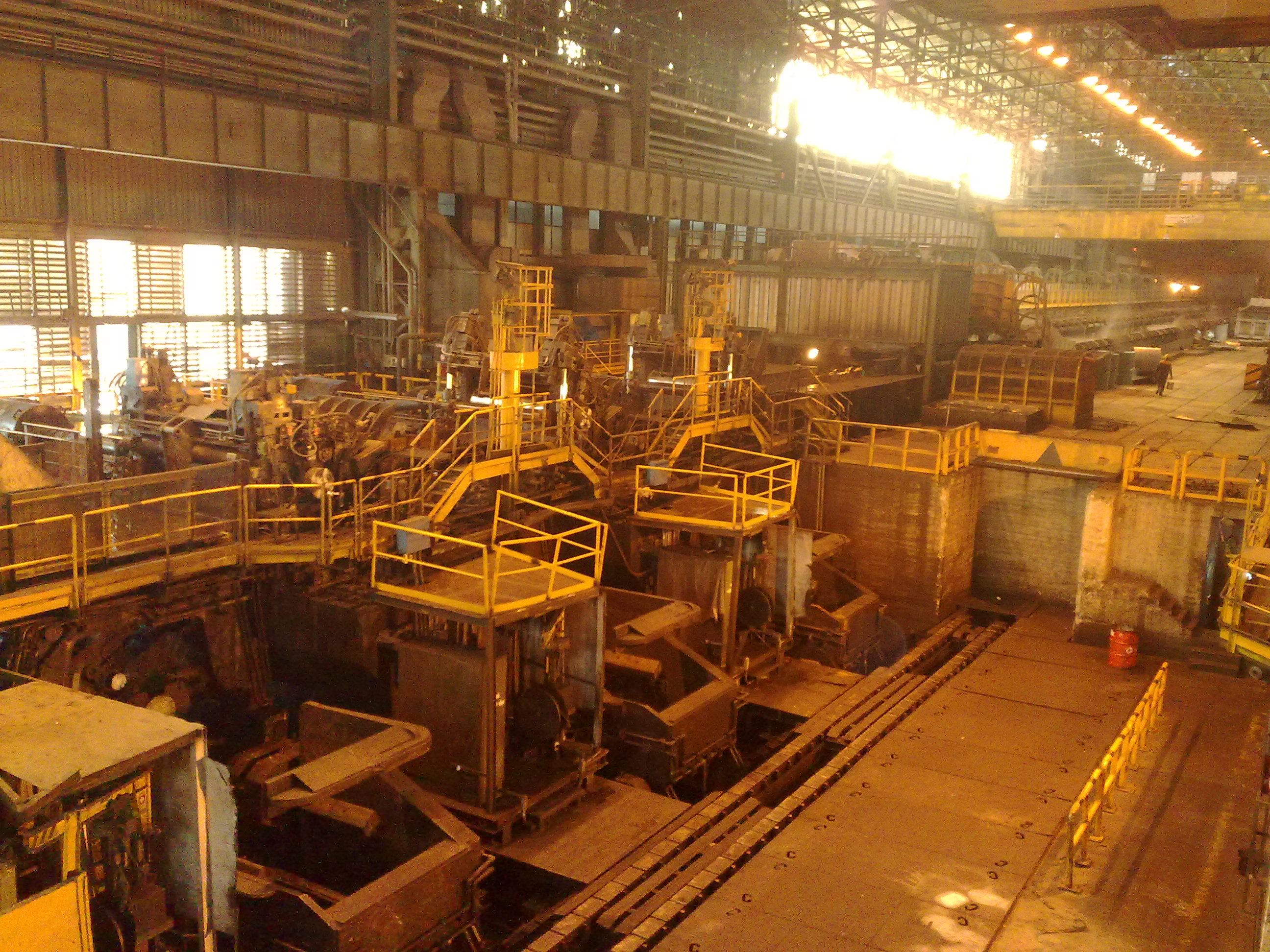 Foolad Mobarakeh Steel Mill. Isfahan.